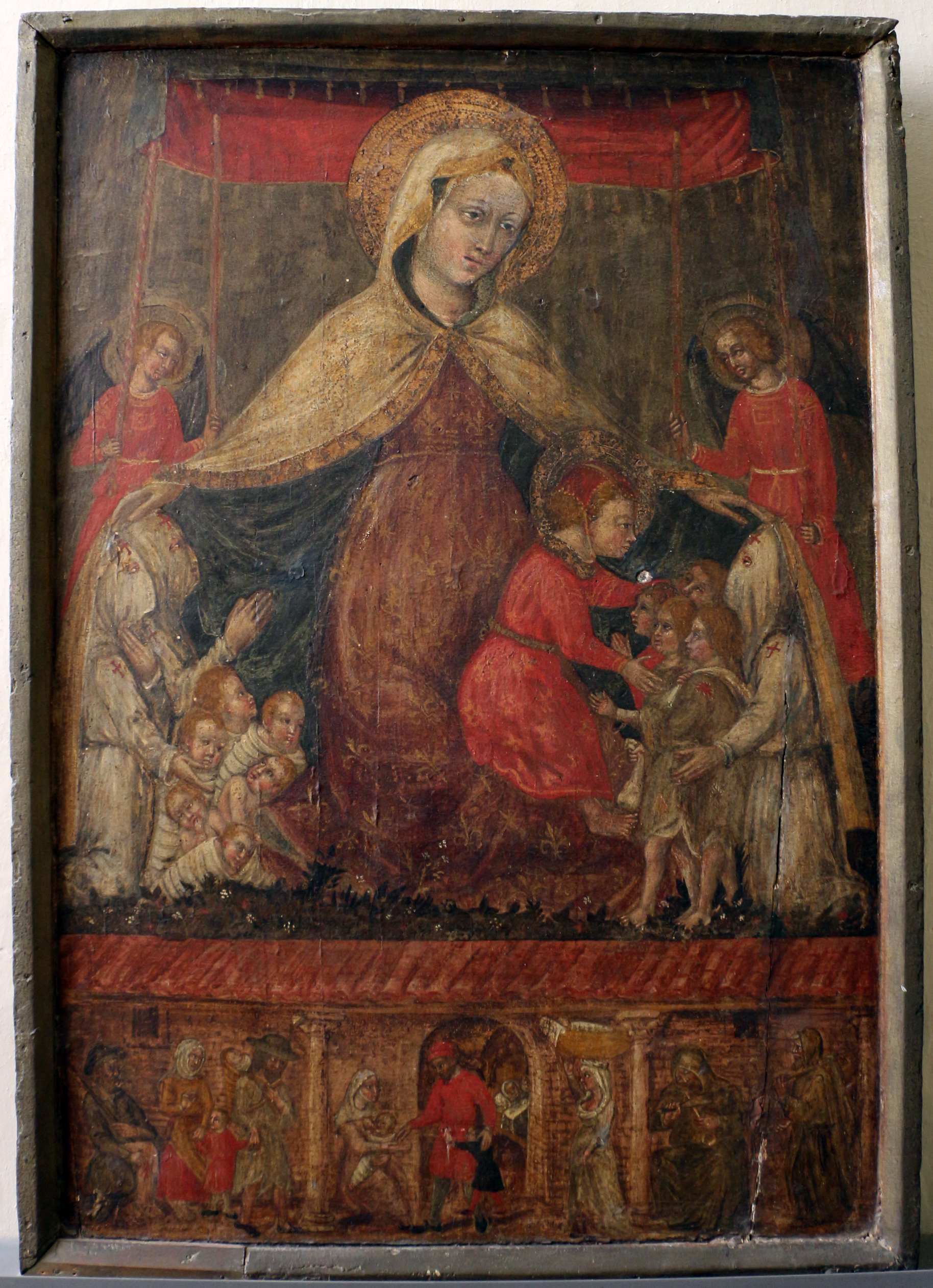 Paintings in the Museo Civico (Gubbio)